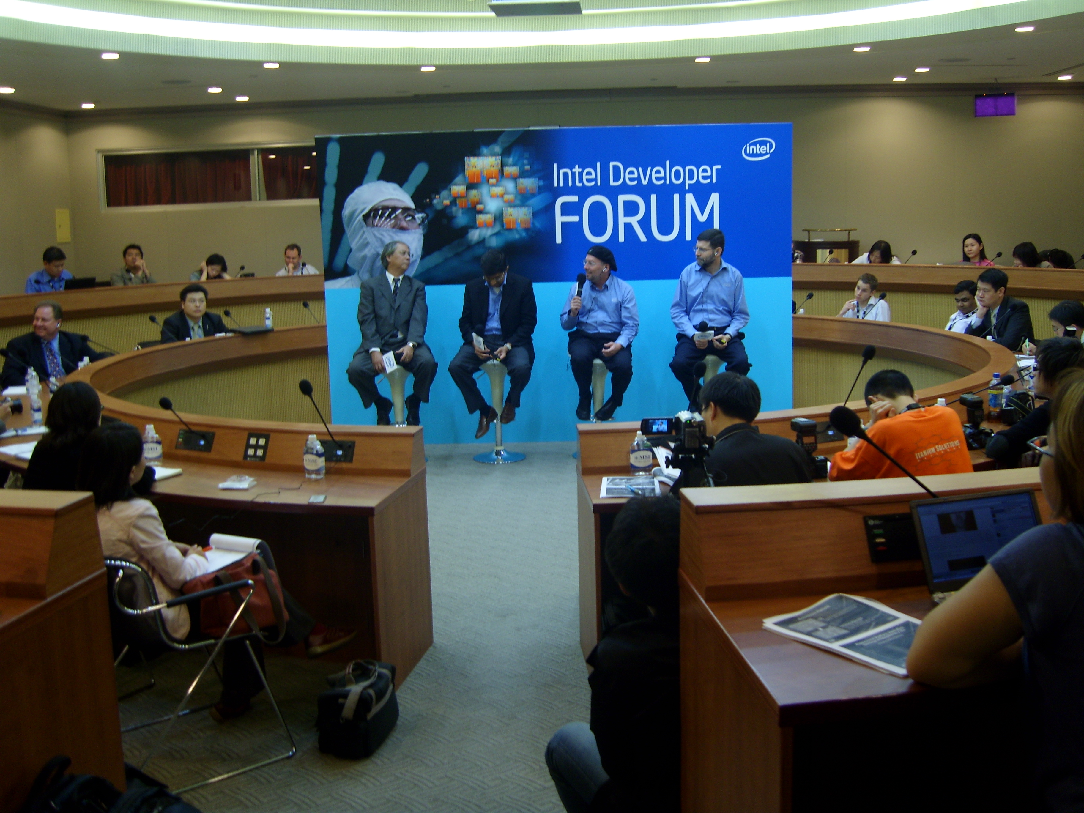 Day 1 Press Conference of 2007 Intel Developer Forum Taiwan Autumn.